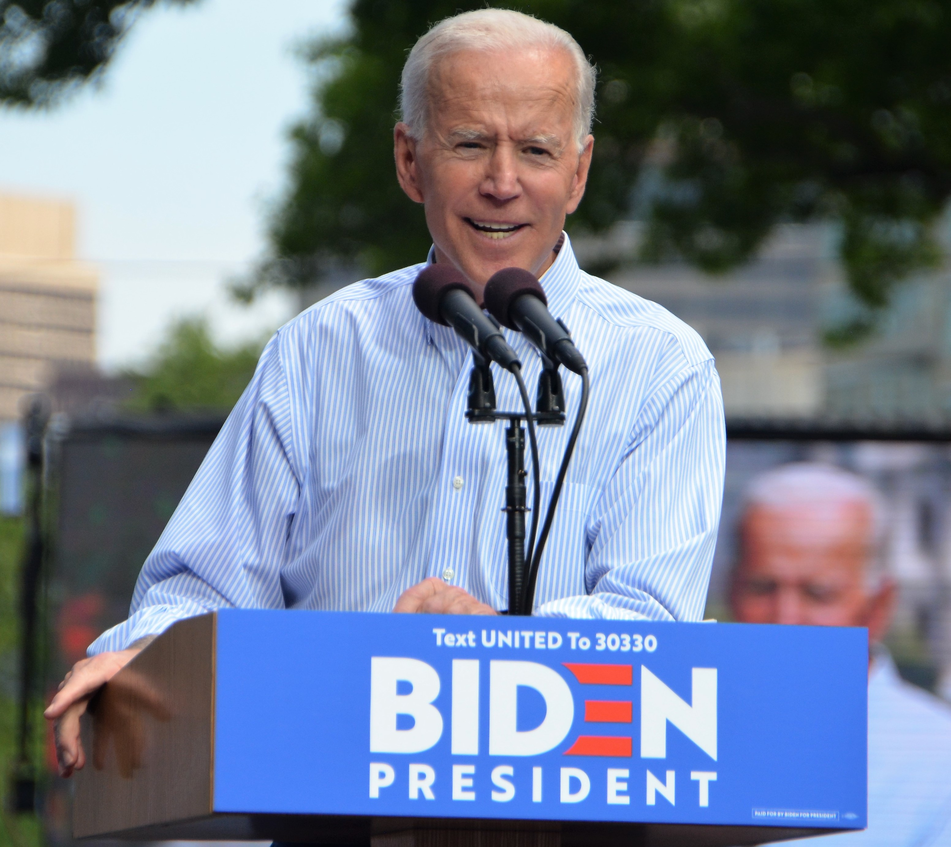 Former Vice President Joe Biden's kickoff rally for his 2020 Presidential campaign